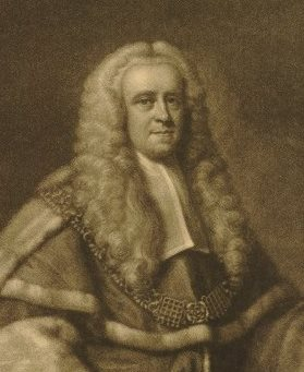 Dudley Ryder, Lord Chief Justice